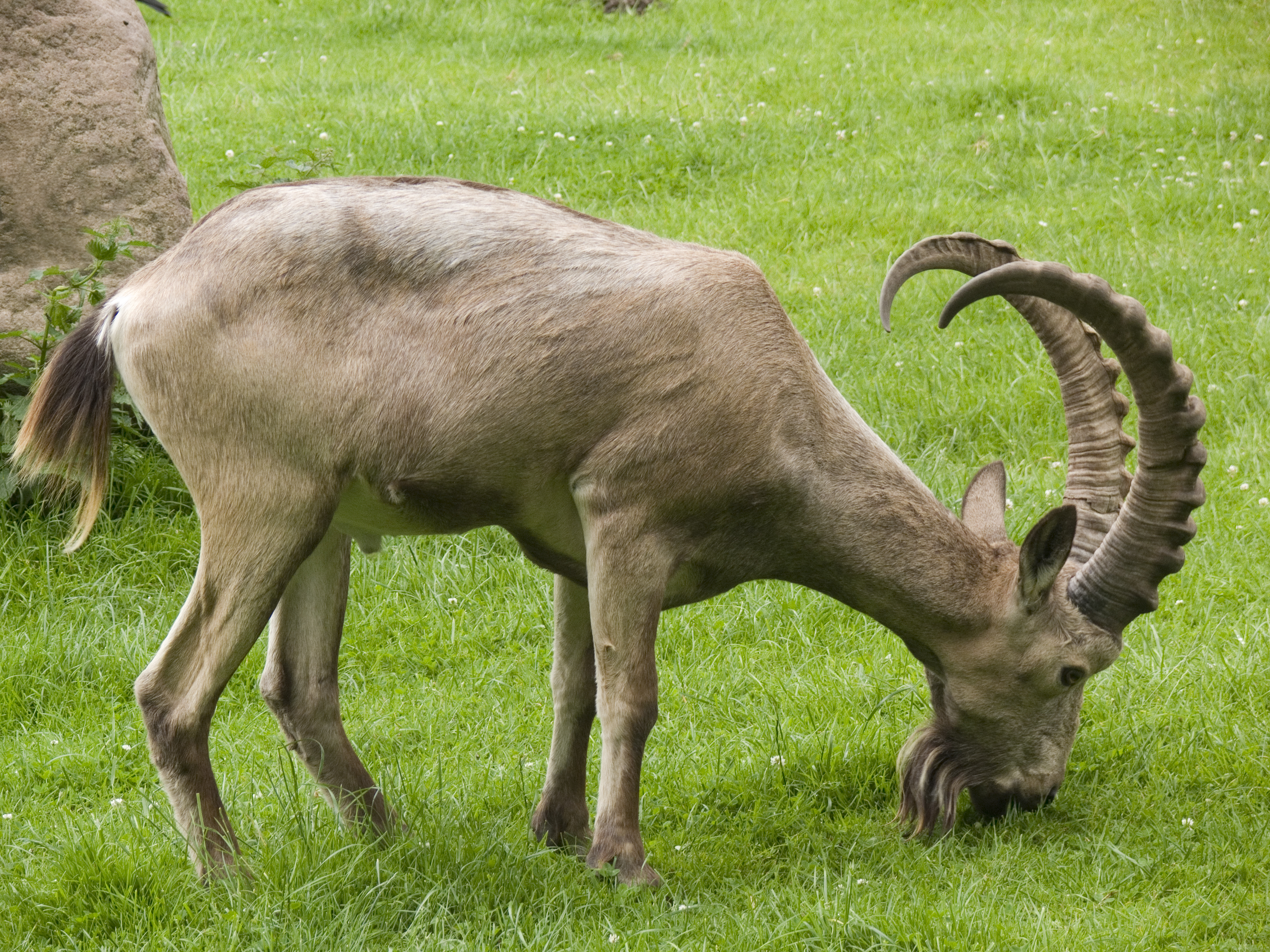 Siberian Ibex